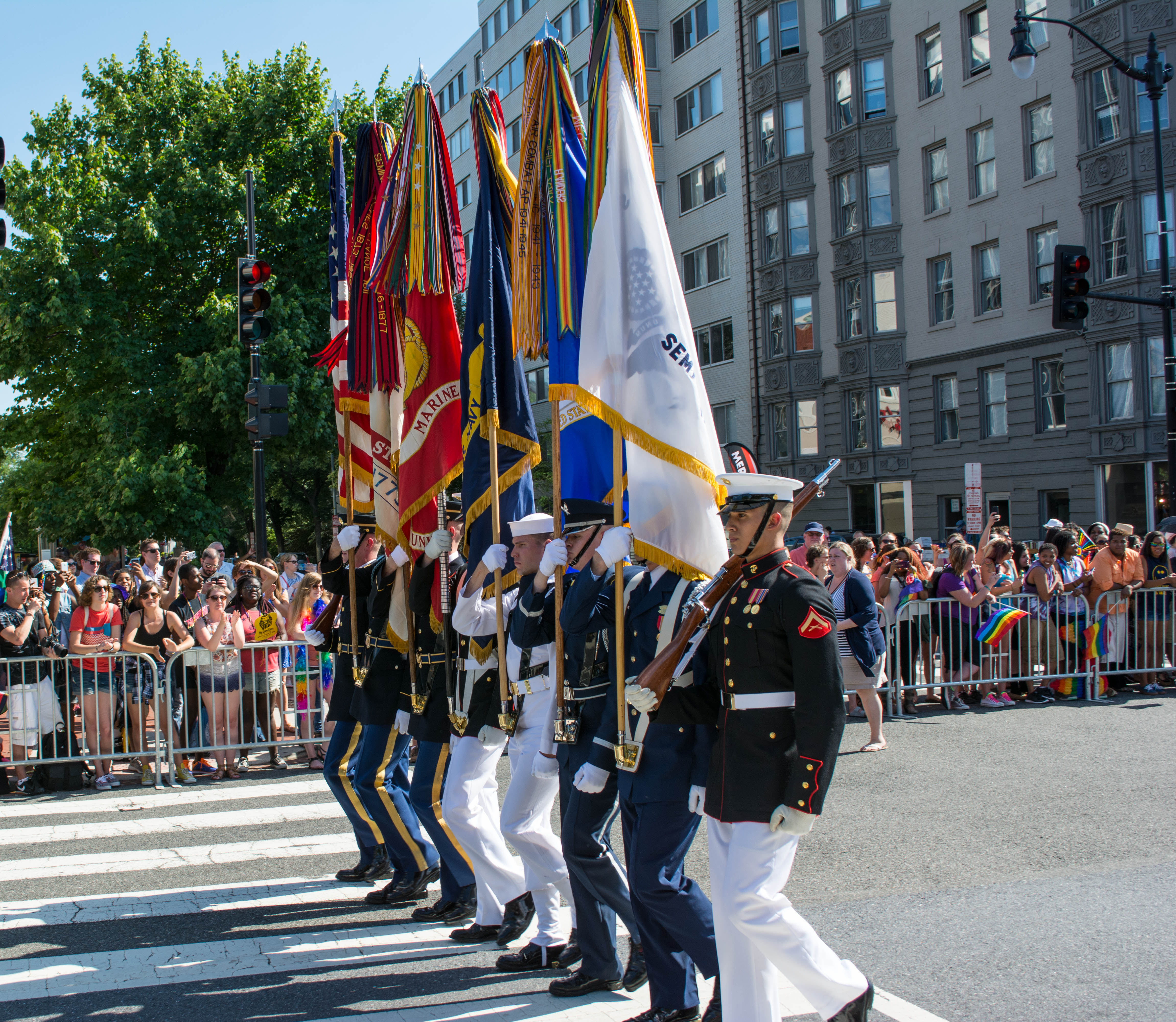 A United States armed forces color guard leads the Capital Pride gay pride parade on June 7, 2014, in Washington, D.C., in the United States. It was the first time in U.S. history that an official U.S. military color guard participated in a gay pride parade.